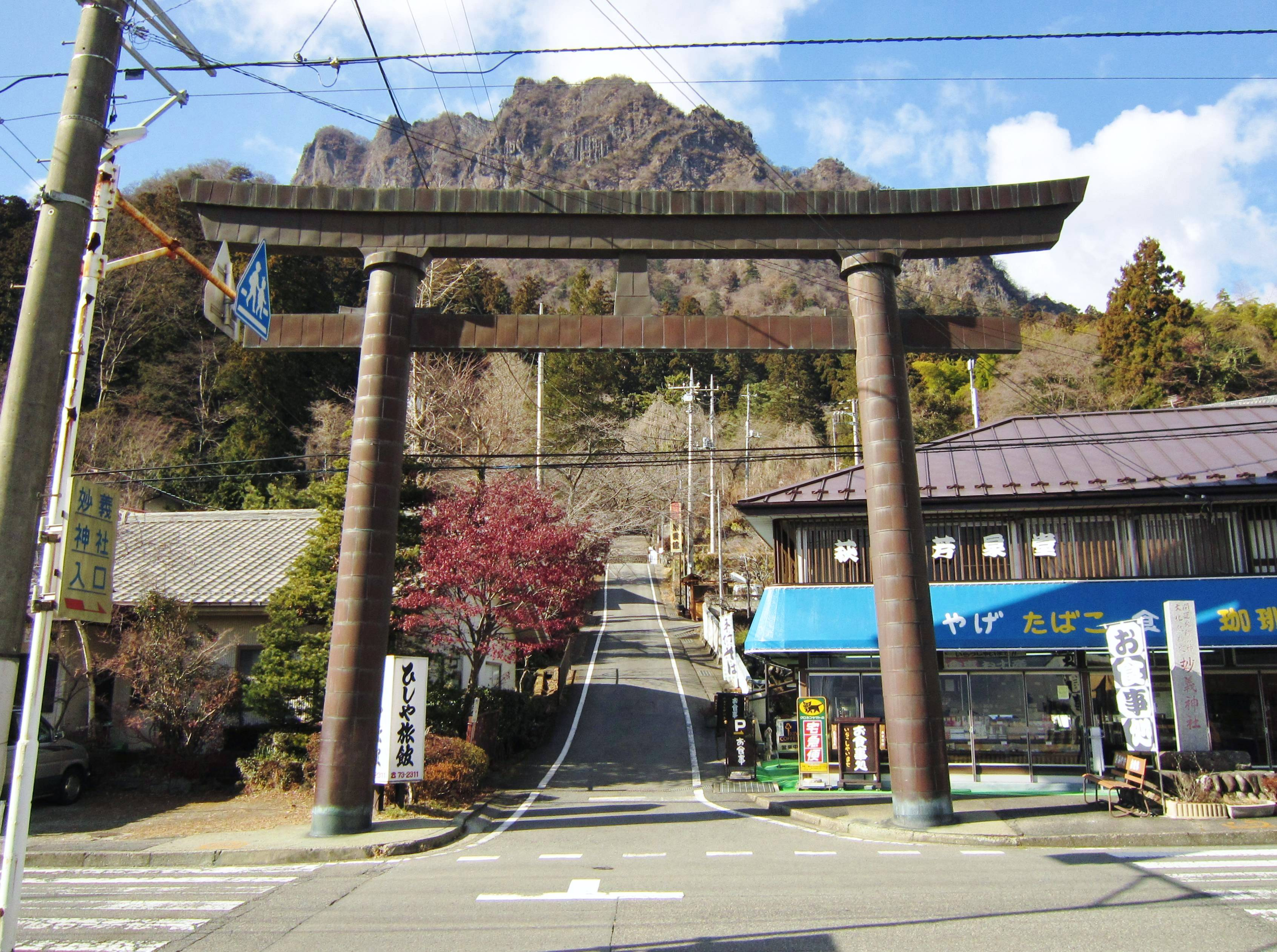 Myogi-jinja Ōtorii.